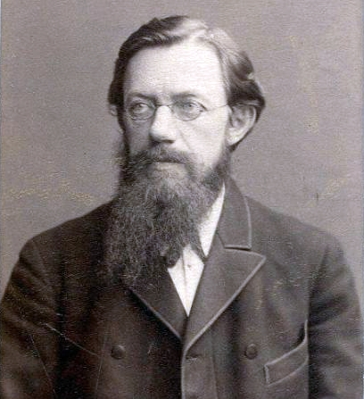 Jan Stanisław Franciszek Czerski - was a Polish paleontologist, osteologist, geologist, geographer and explorer of Siberia. He was exiled to Transbaikalia for participating in the January Uprising of 1863Иван Черский (Jan Czerski: 15.05.1845 - 25.06.1892) — Russian Belorussian and Polish geologist, paleontologist, traveller and explorer of Siberia.